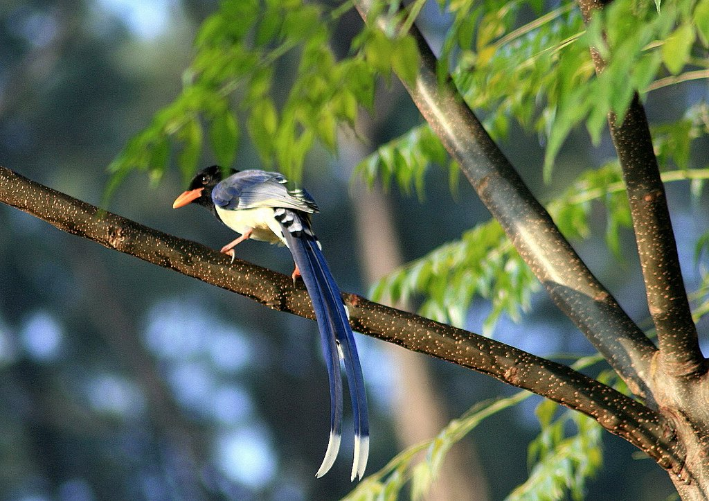 Yellow-billed Blue Magpie Urocissa flavirostris photographed in New Forest Campus Dehradun. This beautiful bird is resident of Himalayas and NE India.